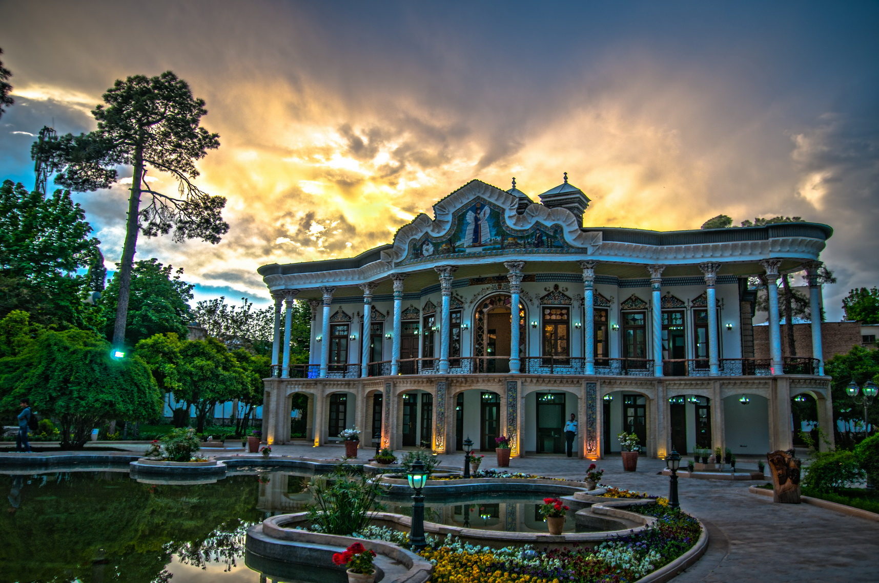 Shapouri House in Shiraz, Persia [Iran] -- Photo by Hossein Amini / Persian Dutch Network